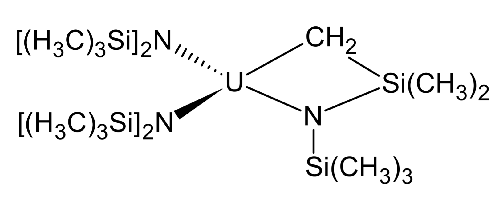 the representation of the structure of an organometallic uranium metallacycle